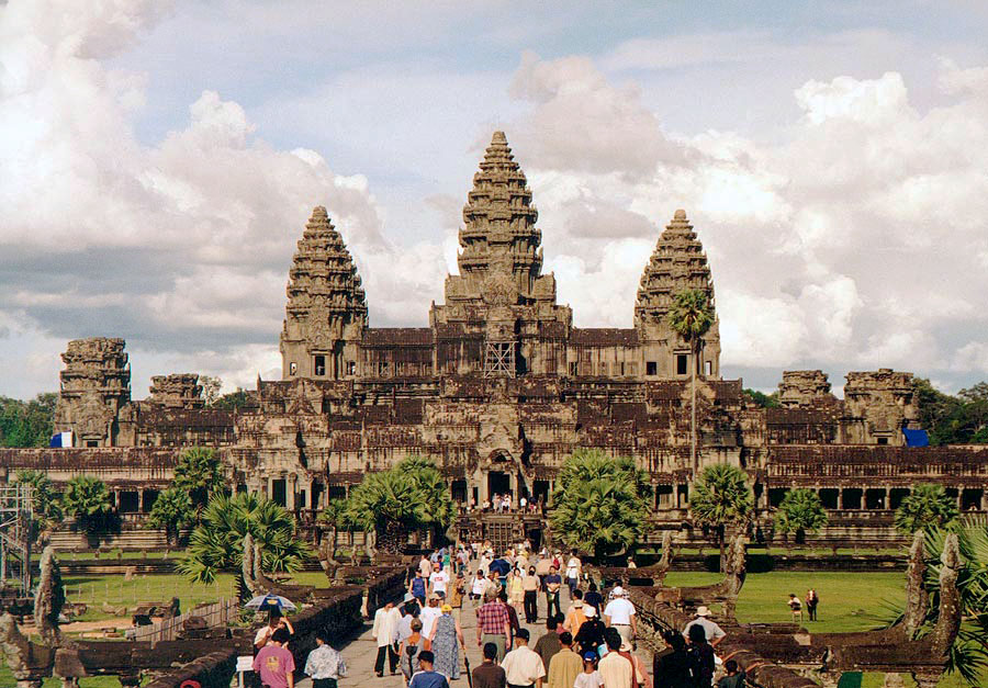 Angkor Wat, Cambodia, as seen from the west entrance